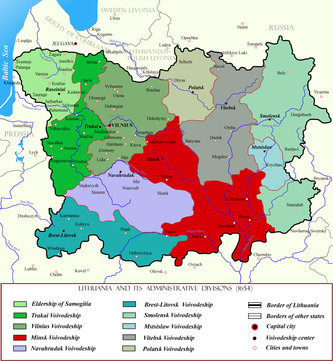 Minsk Voivodeship (red) within Lithuania in the 17th century